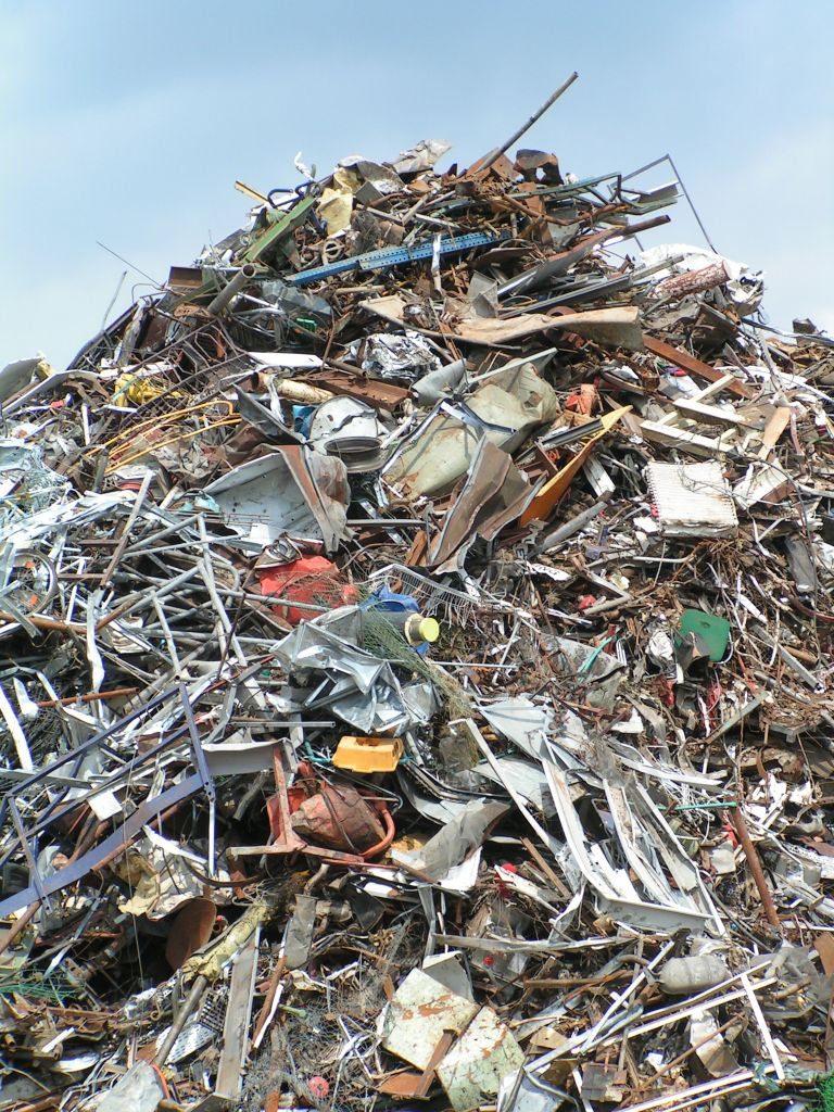 scrap metal in Trier on a junk yard